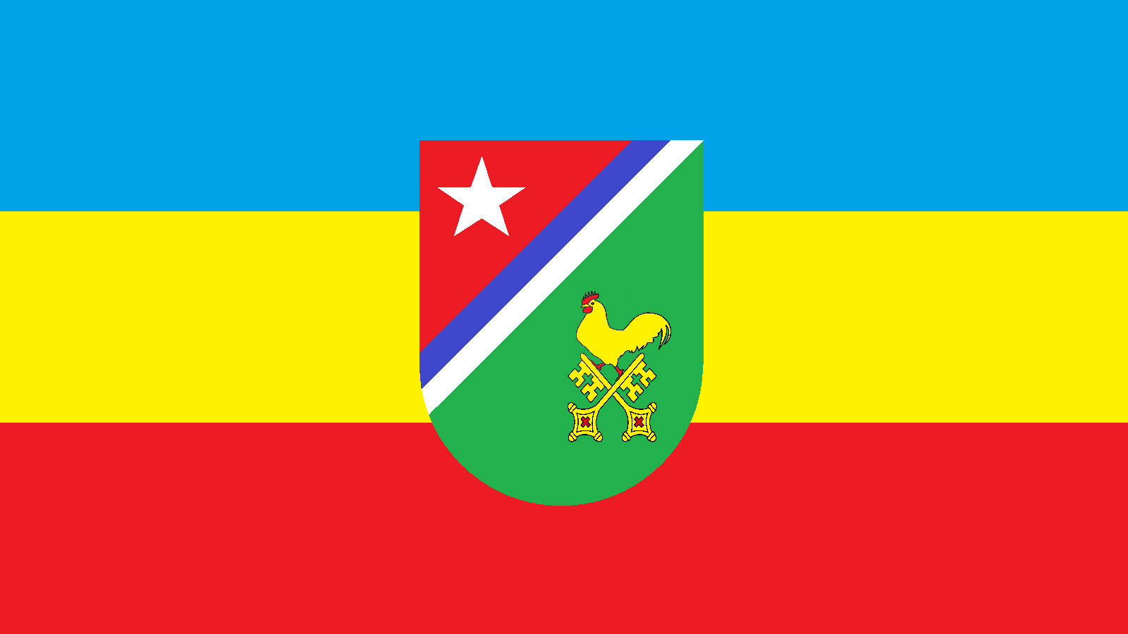 Flag of Quivicán Town, Mayabeque Province, Cuba.